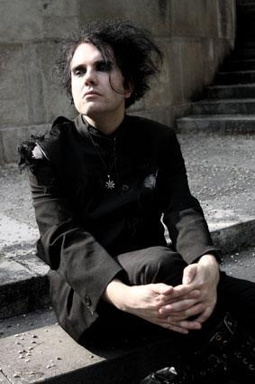 photo from ashley dayour.